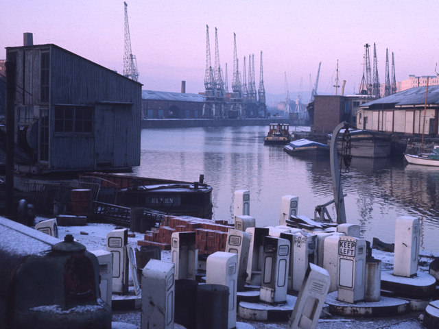 Floating Harbour from Bristol Bridge This photograph was taken by my father in 1971, and shows the City Docks looking West from the South Side by Bristol Bridge. The two buildings on the right are (left to right) the Port Police Headquarters, now the River Station restaurant, and a boathouse built by Brunel, now the Severnshed restaurant. The housing development at Merchants Quay now occupies the site of the transit sheds in the middle distance. Comment by User:Jezhotwells Actually this must be taken from Redcliffe Bridge, not Bristol Bridge as these building are not visible form Bristol Bridge.